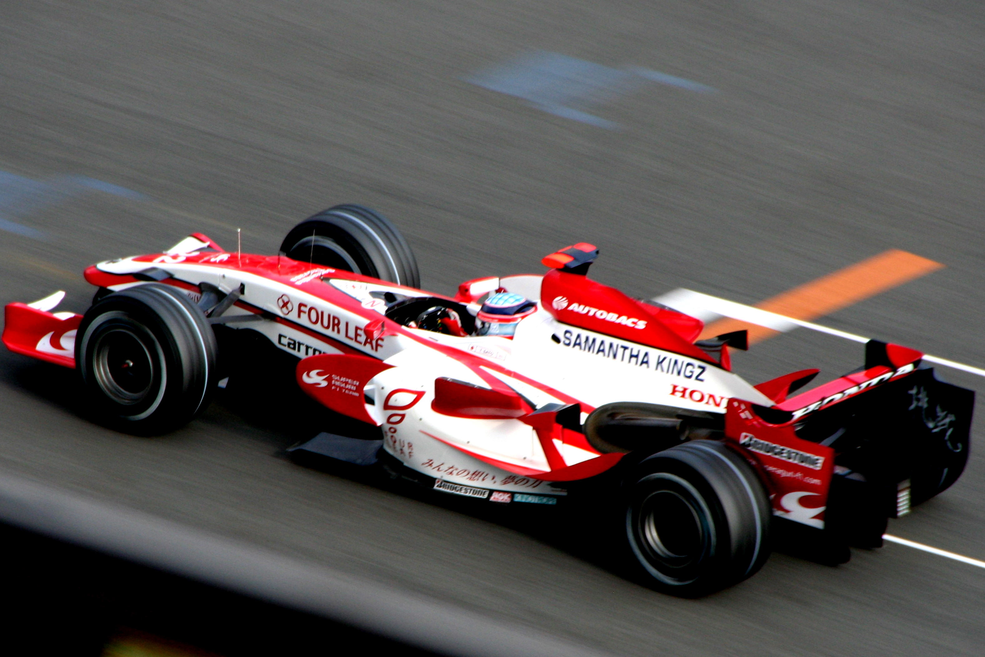 Takuma Sato driving for Super Aguri F1 at the 2007 Japanese Grand Prix.